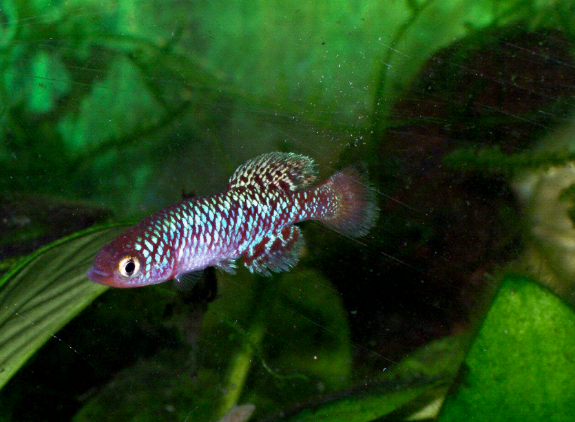 Nothobranchius rachovii, young male